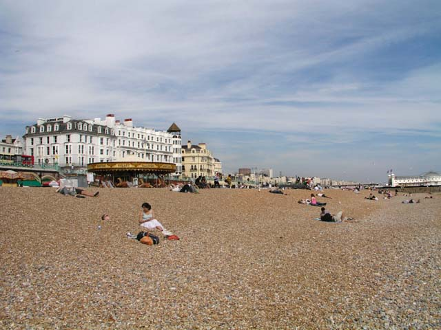 Brighton Beach on a perfect day Looking towards Grand Junction with hotels, Carousel and the Palace Pier behind. The weather, combined with the aroma of non-traditional seaside cuisine, lent the day a Mediterranean feel.